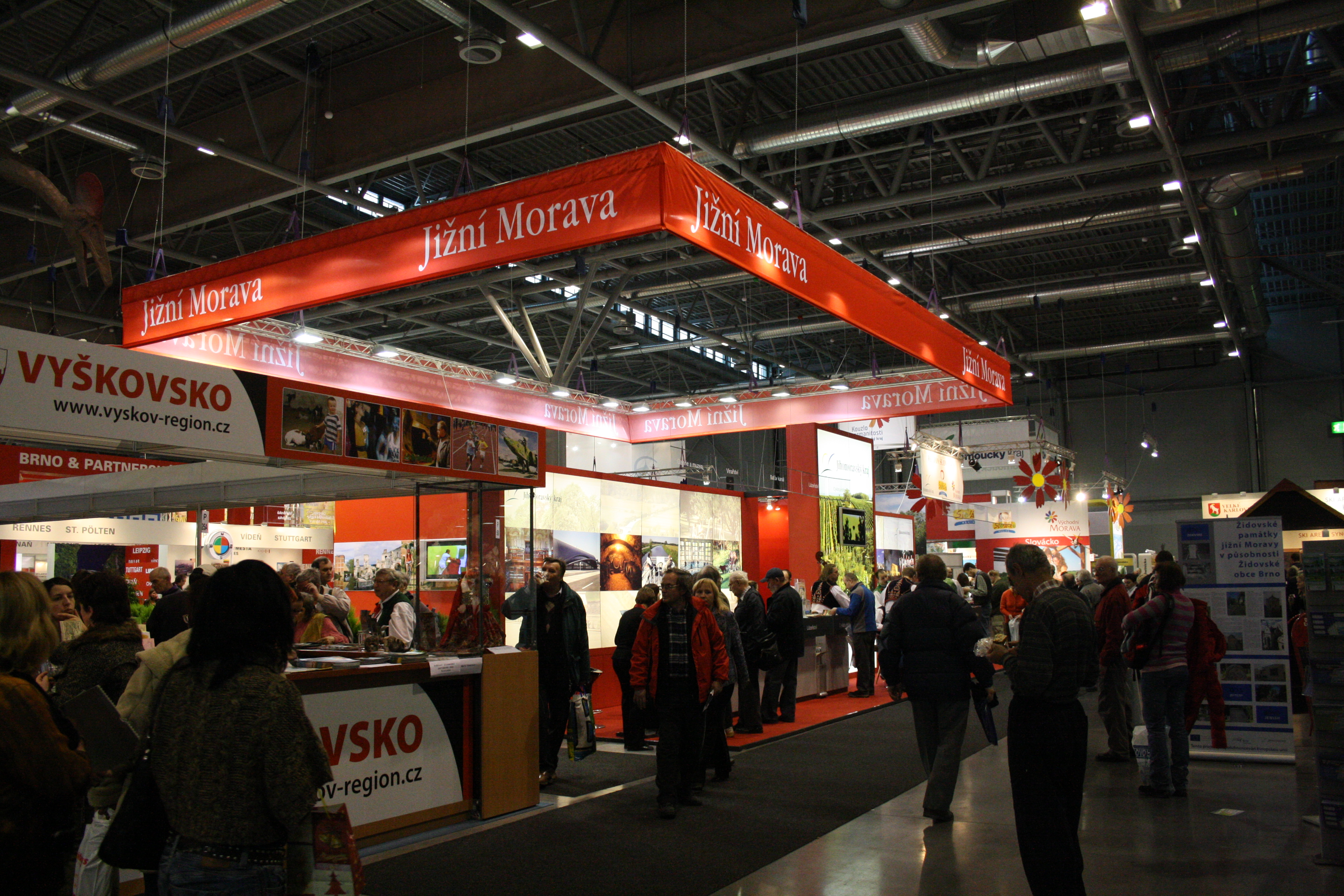 Presentation of various touristic destinations of Czech Republic.